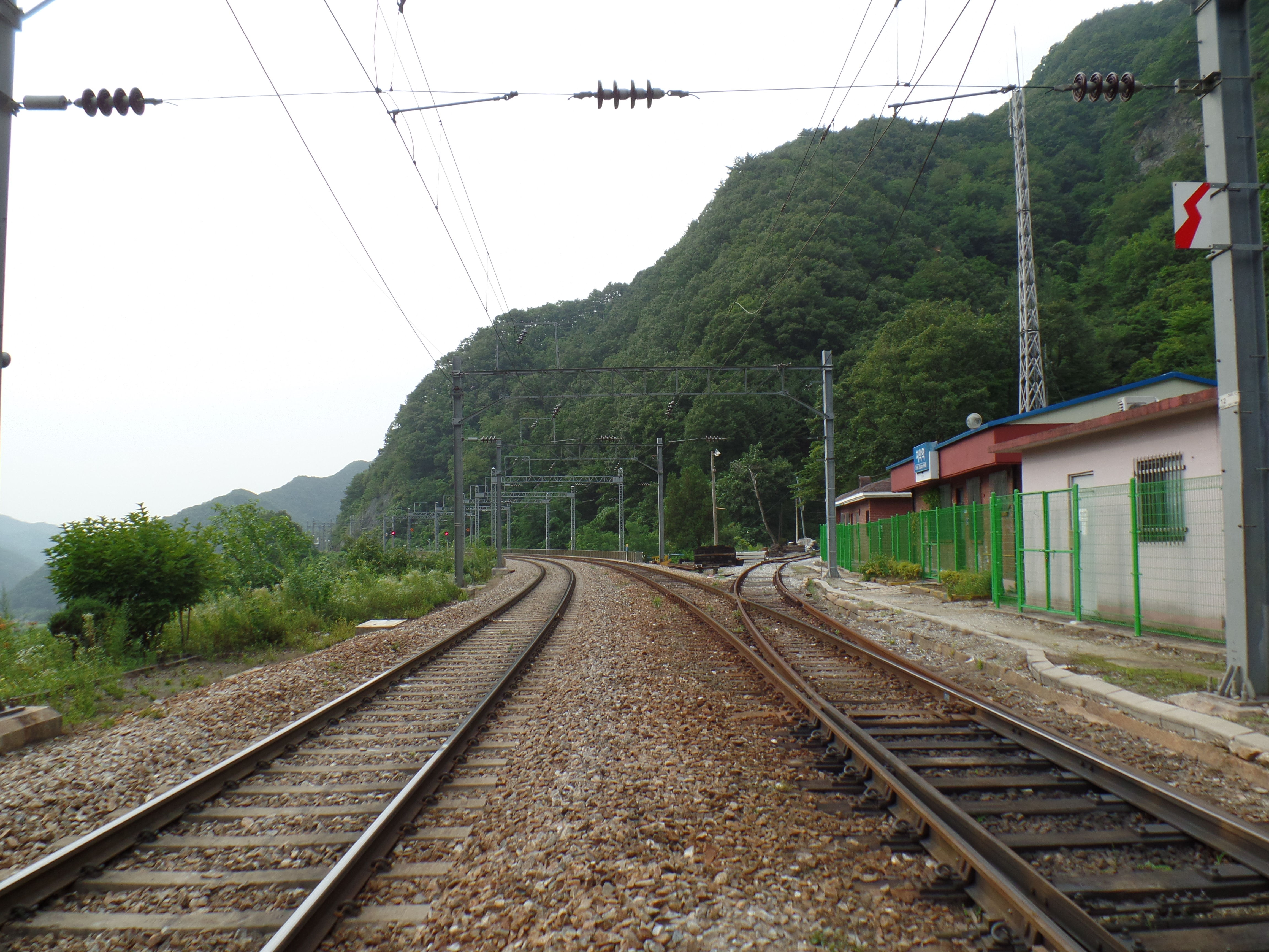 Chiak Station Northern Direction(Cheongnyangni Station Direction)